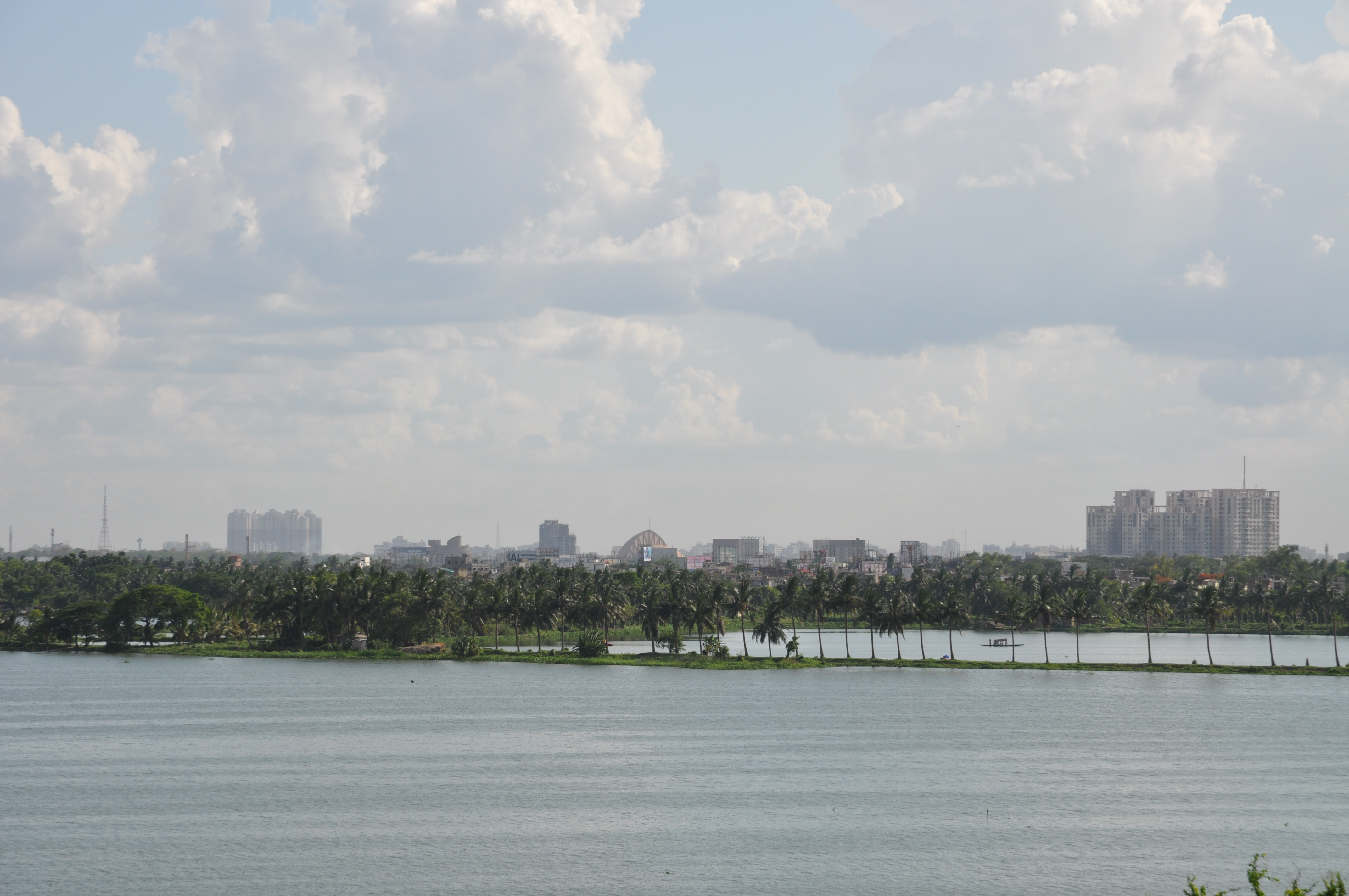 Photograph taken from Sector V, kolkata towards Science City.